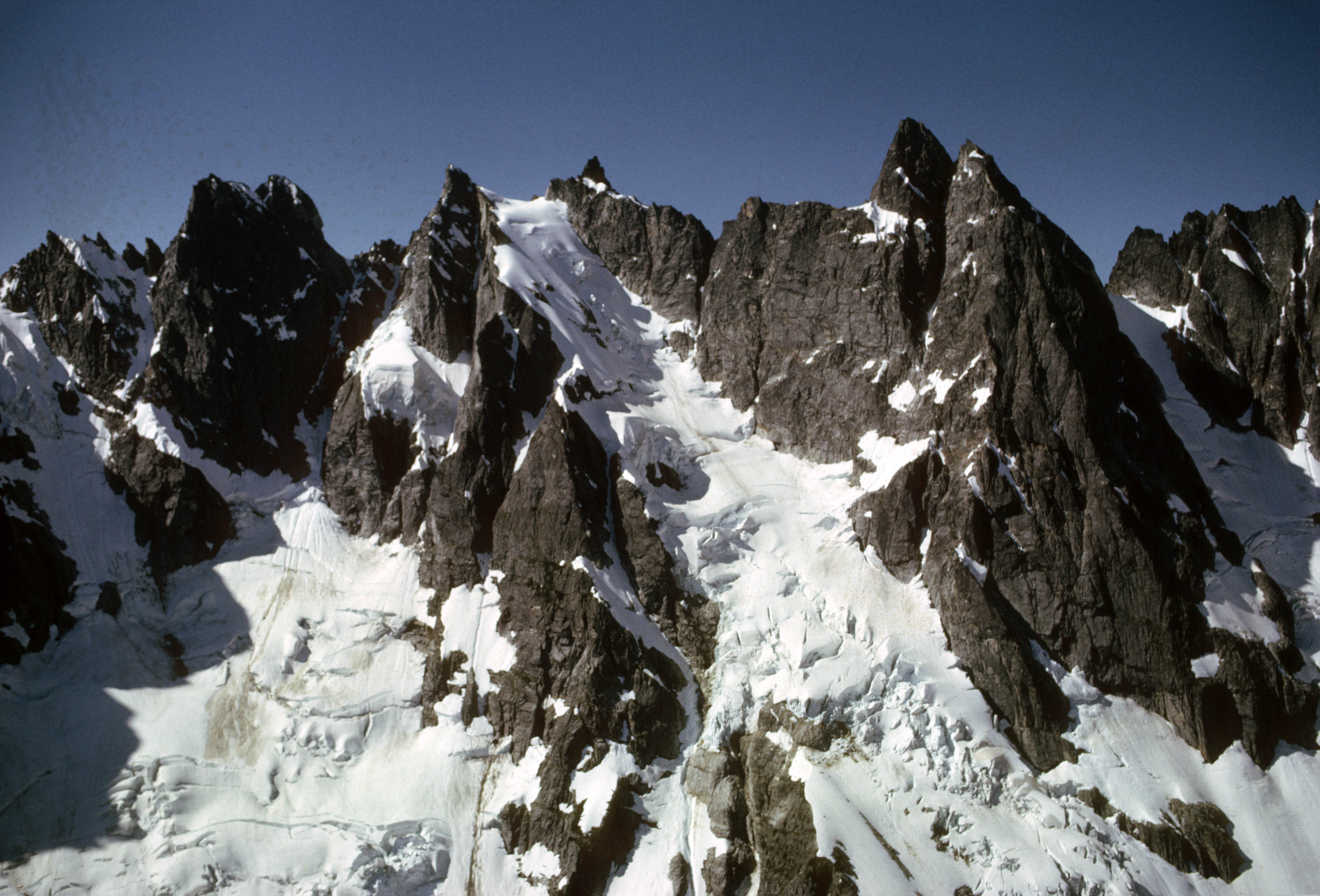 North Cascades Scenic Highway, Okanogan-Wenatchee National Forest-5.jpg